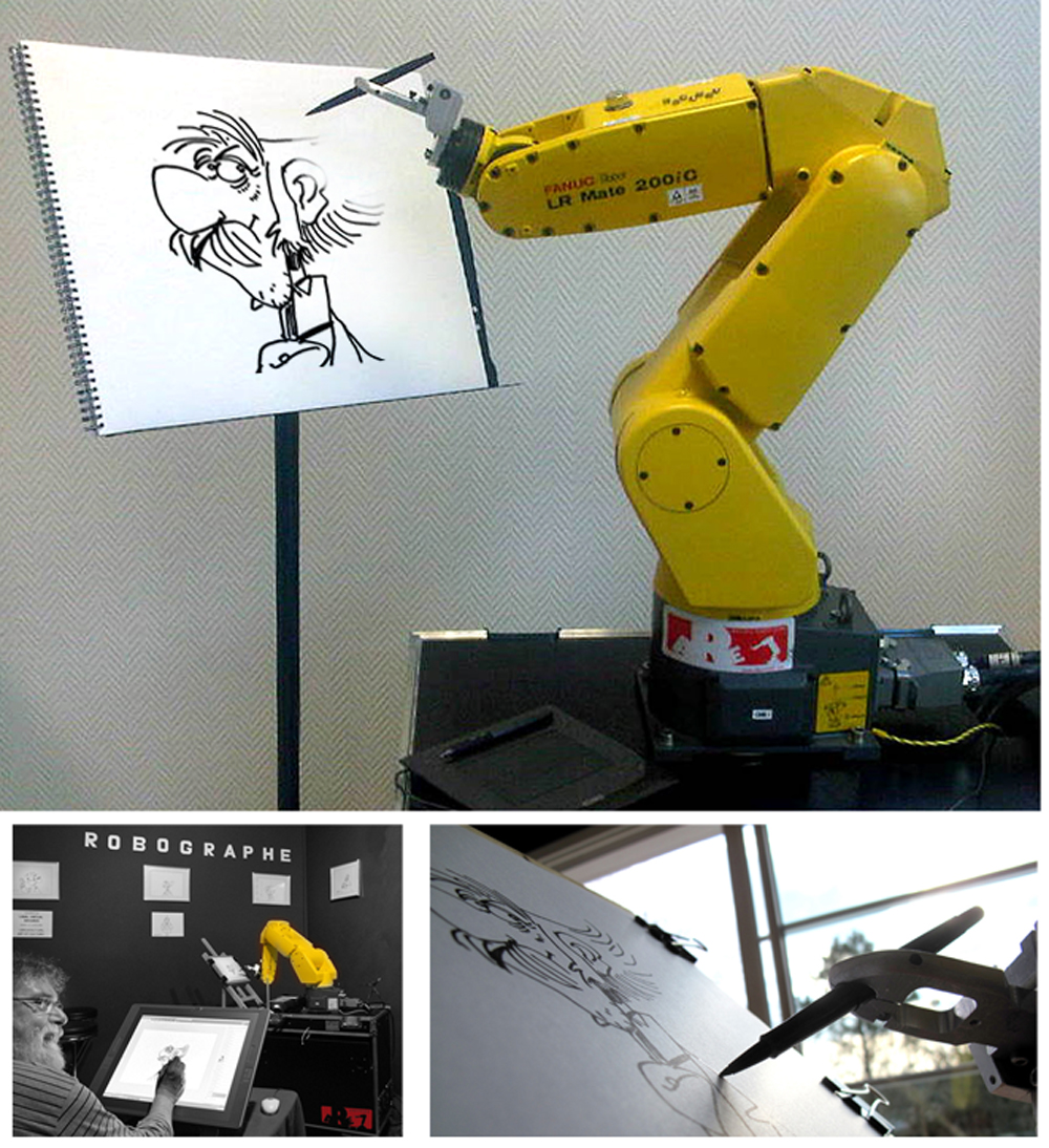 ropgraphe using digital tablet for capture the gesture of Jean Claude Fournier